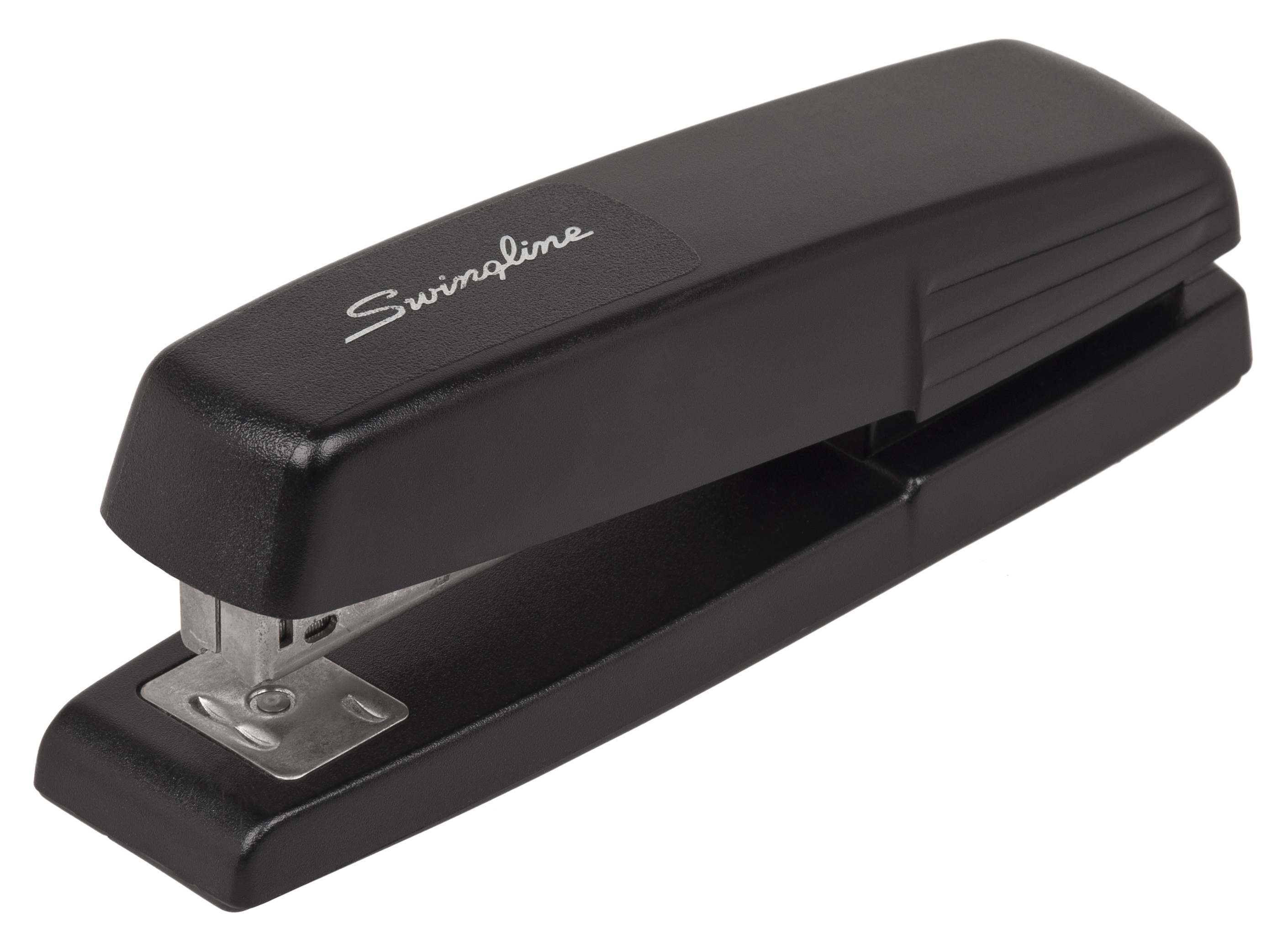 A Swingline-brand Stapler